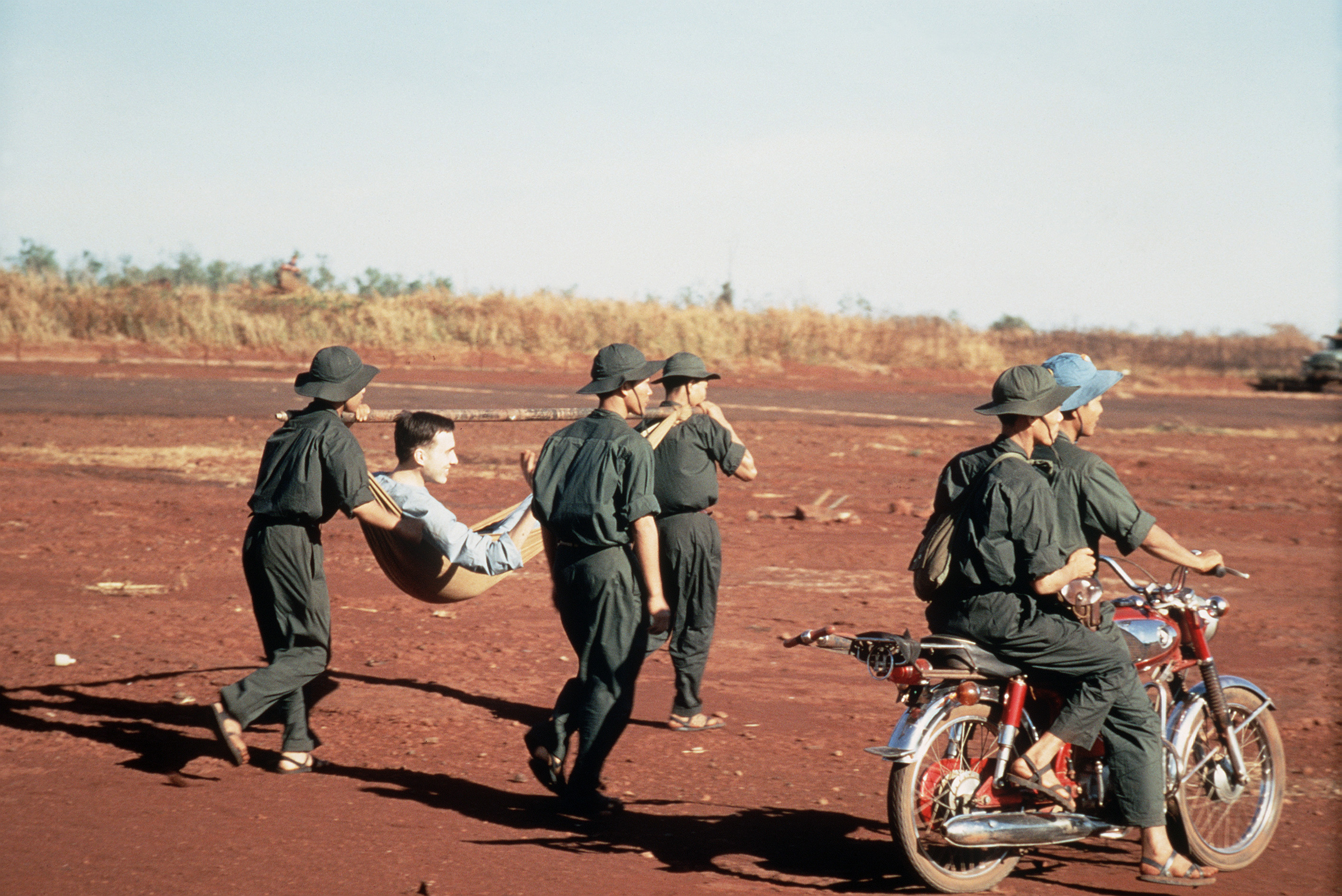 Viet Cong soldiers carry a litter with injured American POW, Capt. David Earle Baker, (captured 27 June 1972) from the hospital tent to the release point. American and South Vietnamese prisoners were exchanged for Viet Cong and North Vietnamese prisoners.